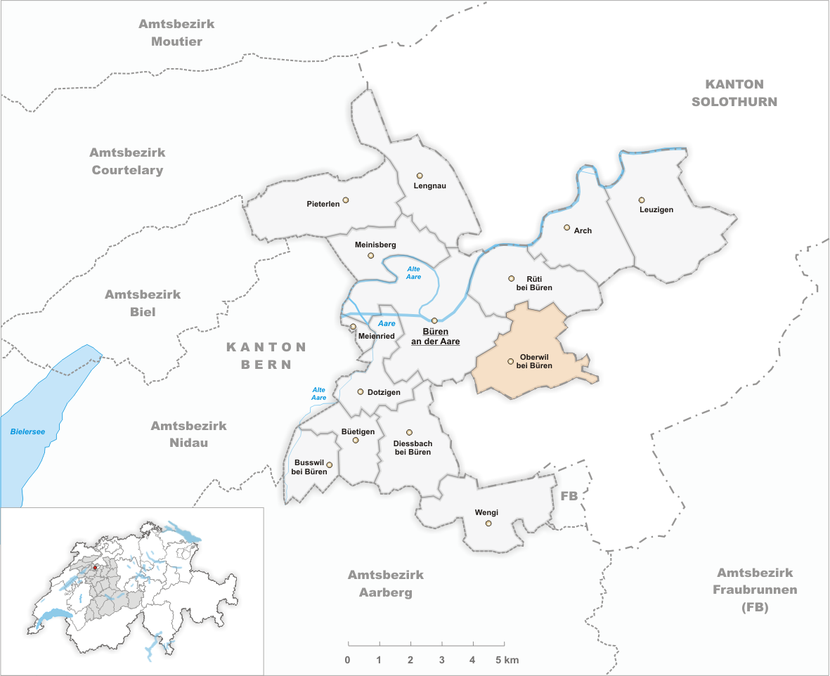 Municipality Oberwil bei Büren